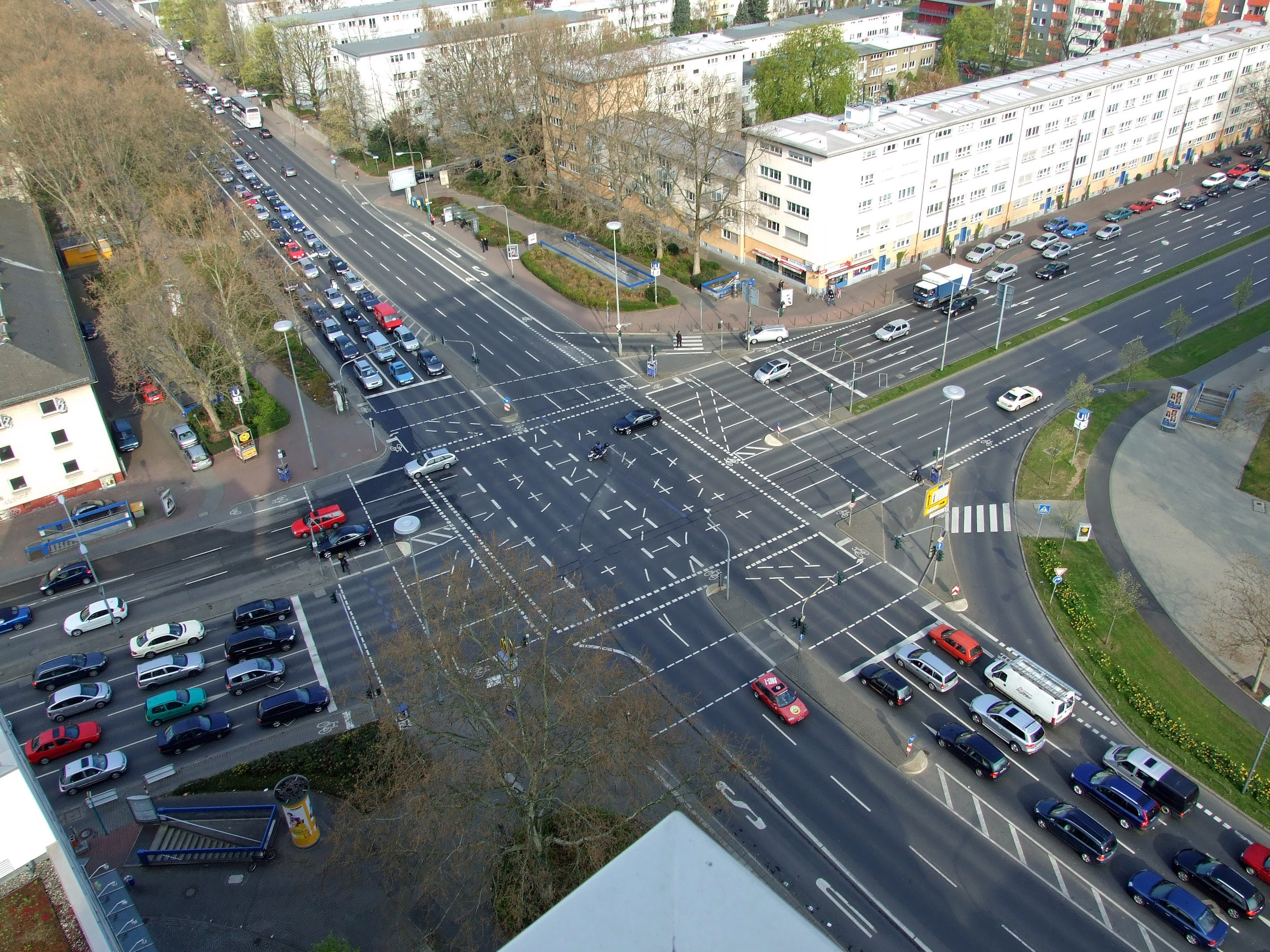 junction, Eschersheimer Landstrasse and Alleenring in Frankfurt am Main